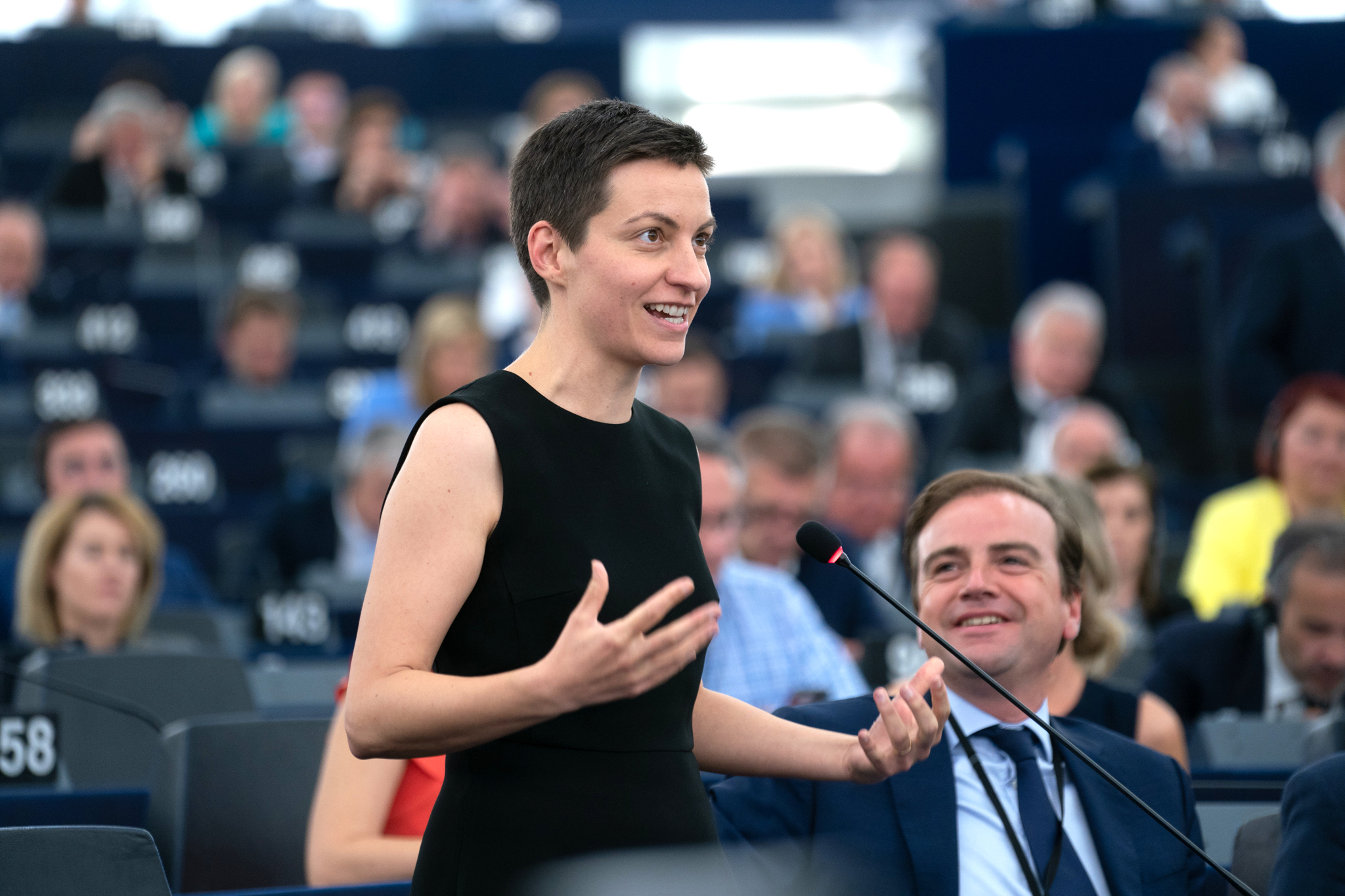 This photo is free to use under Creative Commons license CC-BY-4.0 and must be credited: "CC-BY-4.0: © European Union 2019 – Source: EP". No model release form if applicable. For bigger HR files please contact: webcom-flickr(AT)